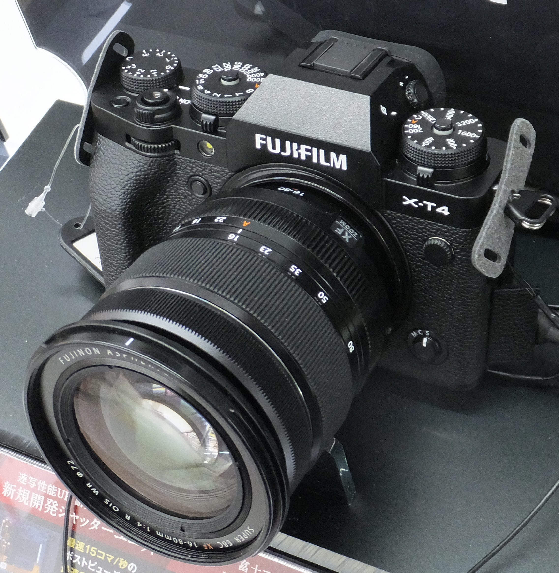 Fujifilm X-T4 (photo taken at Kojima x Bic Camera)